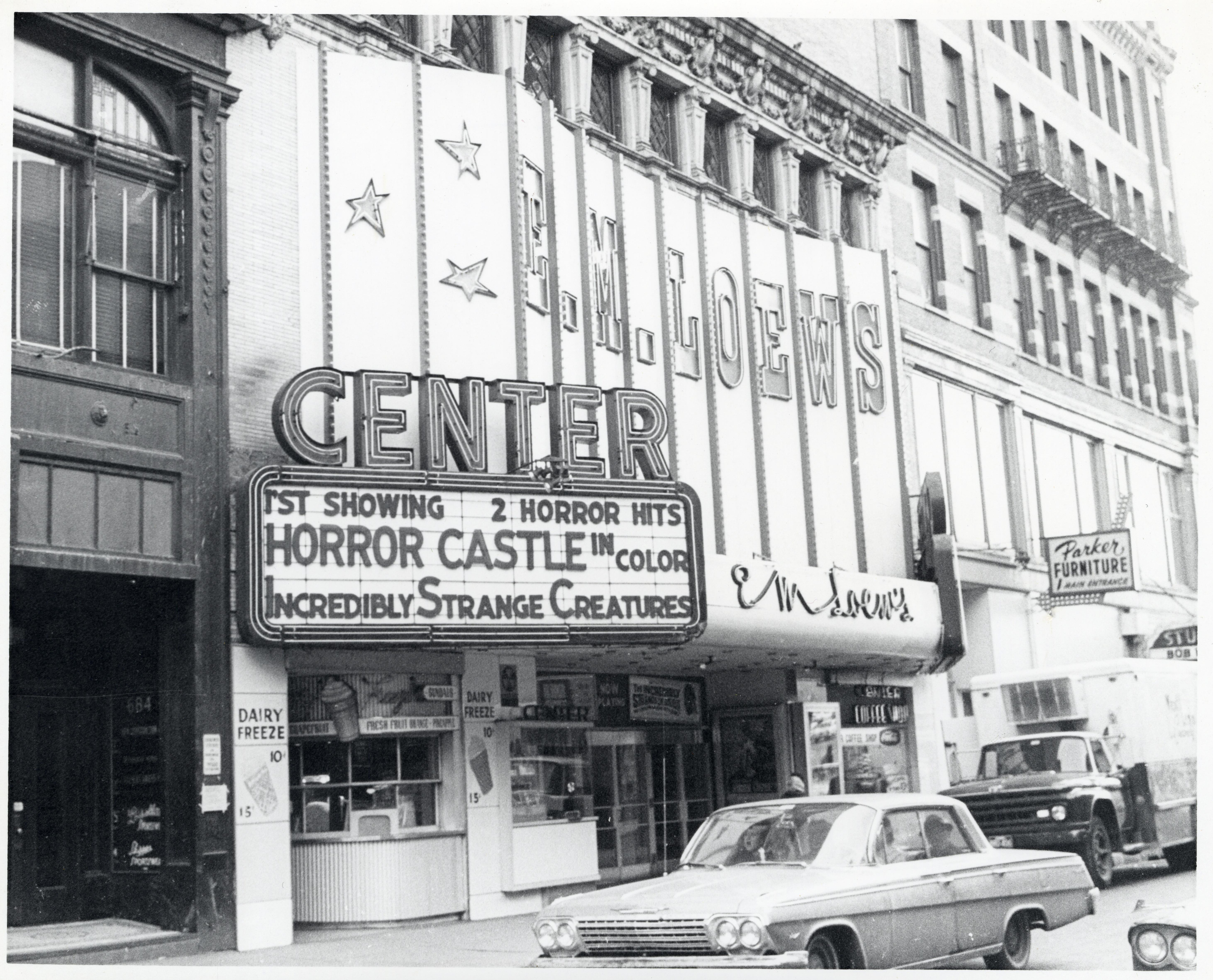 Title: Marquee at Center Theatre on Washington Street, showing Horror Castle, the American title for the Italian horror film La vergine di Norimberga (1963), and Incredibly Strange Creatures, which is short for The Incredibly Strange Creatures Who Stopped Living and Became Mixed-Up Zombies (1964). Creator: City Censor, City of Boston Date: 1965 January 7 Source: City Censorship Files, Mayor John F. Collins records, Collection #0244.001 File name: 244001_0458 Rights: Copyright City of Boston Citation: Mayor John F. Collins records, Collection #0244.001, City of Boston Archives, Boston